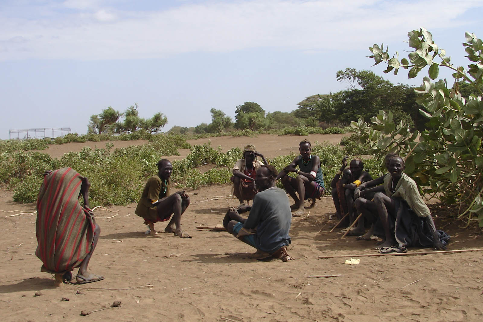 Elders in Omorate, Ethiopia